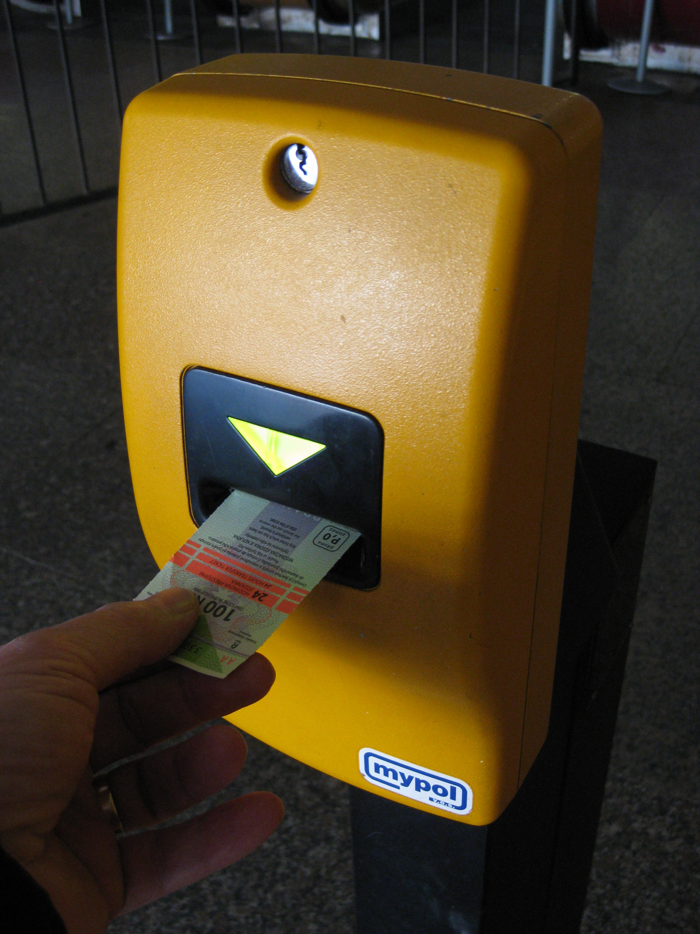 Validating a ticket using the data and time stamp machines on the Prague metro. The ticket has a blank space on one end of the front. This is inserted into the machine which stamps the time and date. The ticket is then valid for a period depending on the ticket.